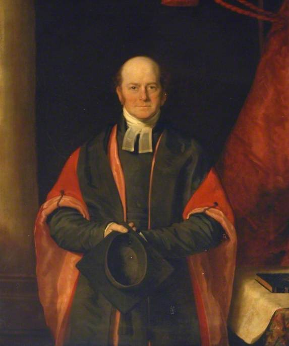 Portrait of William Stephen Gilly (1789–1855), English cleric.